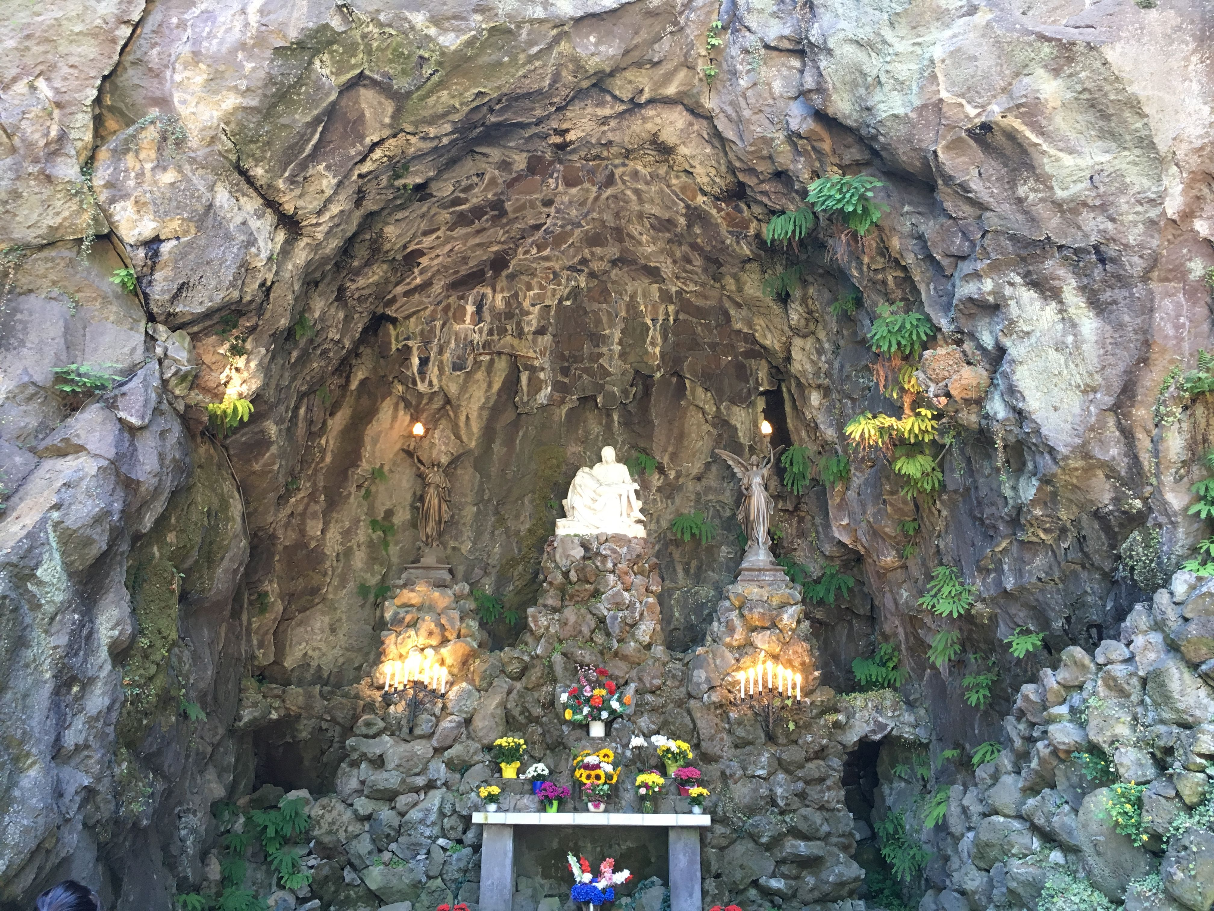 The Grotto in Portland, Oregon, 2019